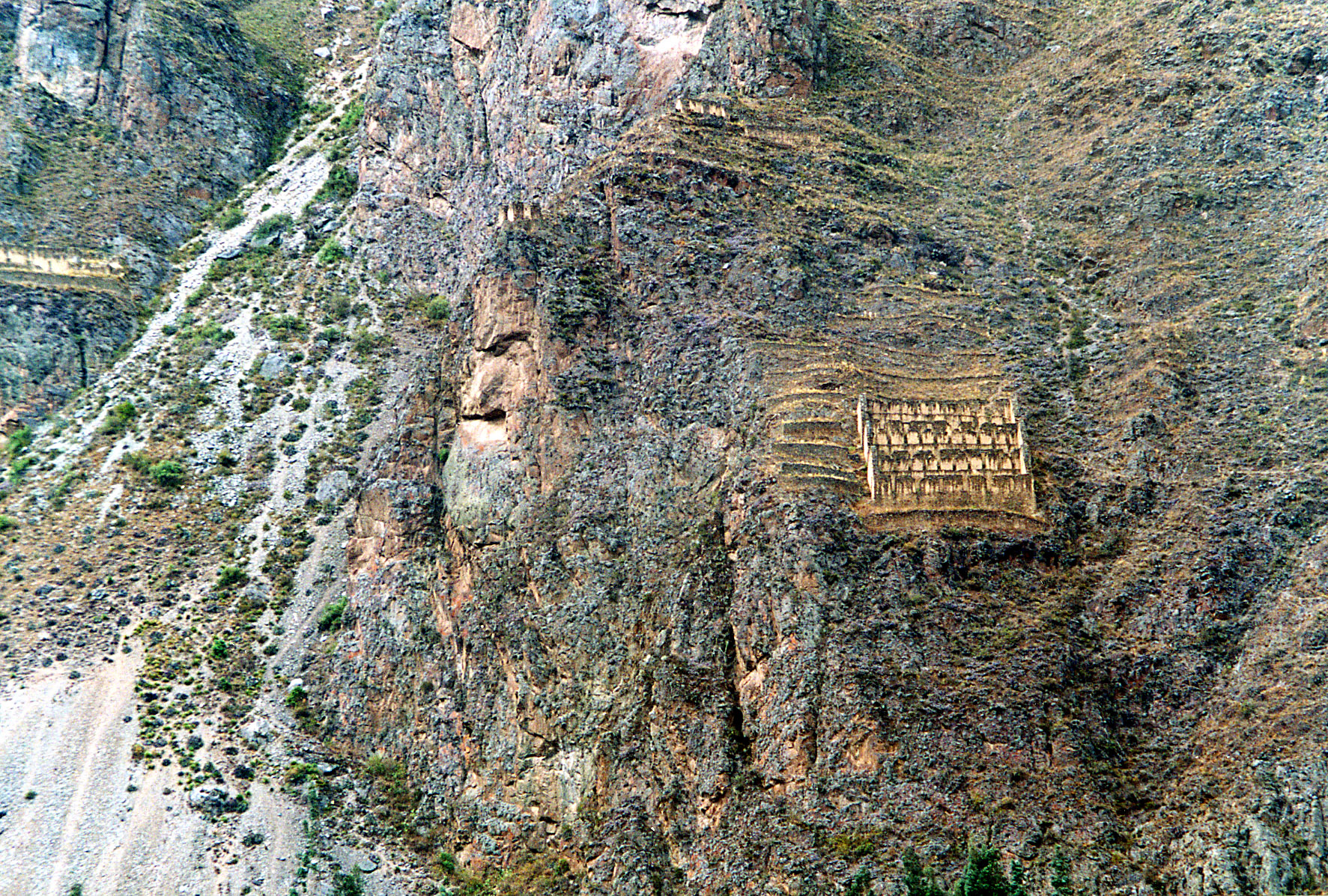 Ollantaytambo, Peru. The photo was taken in 2002 by Håkan Svensson (Xauxa).